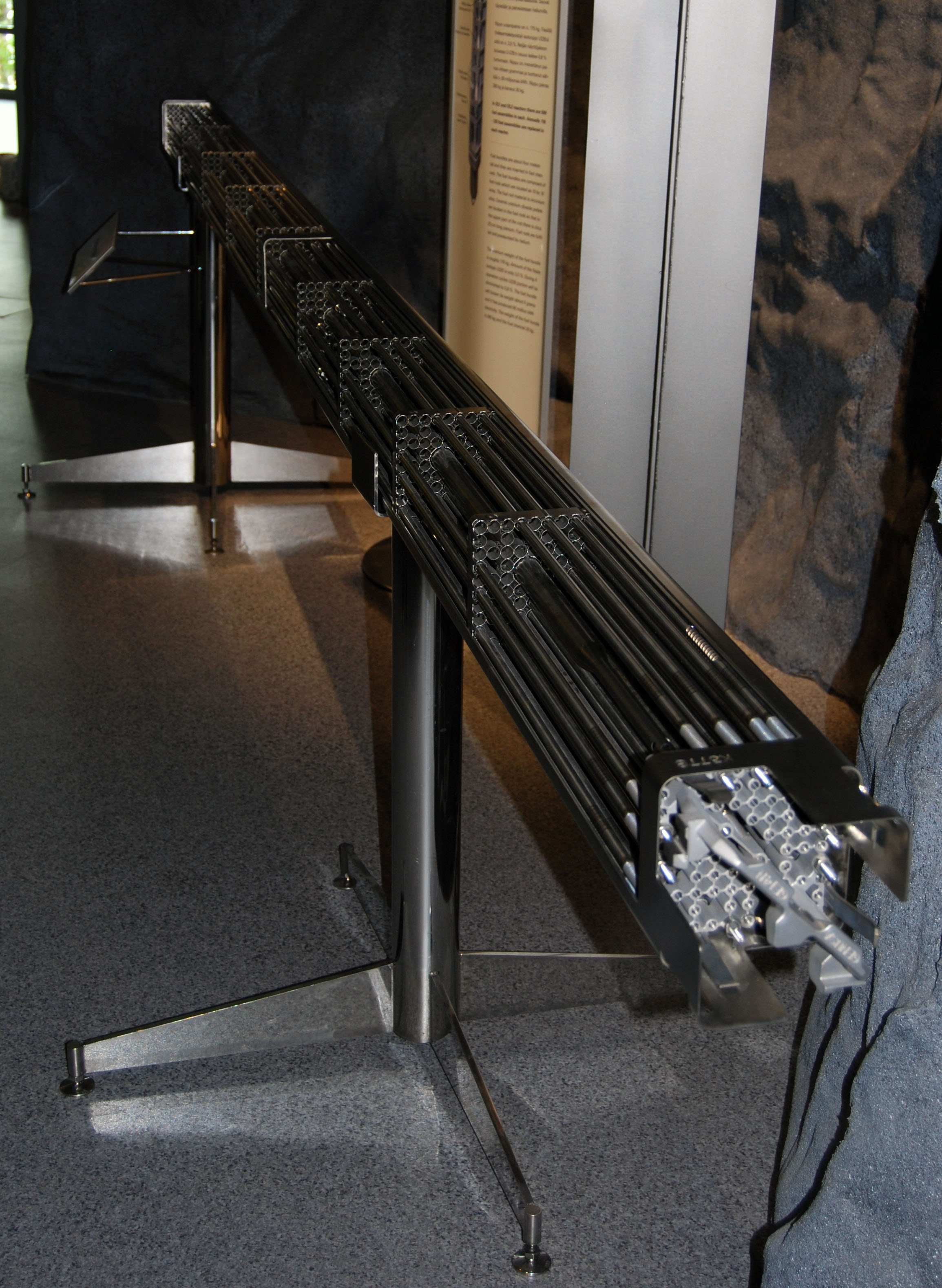 Nuclear fuel bundle